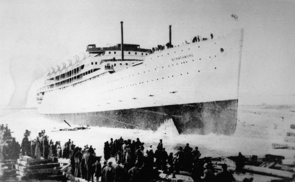 Strathmore (ship) Launching of the Strathmore. (Description supplied with photograph.).